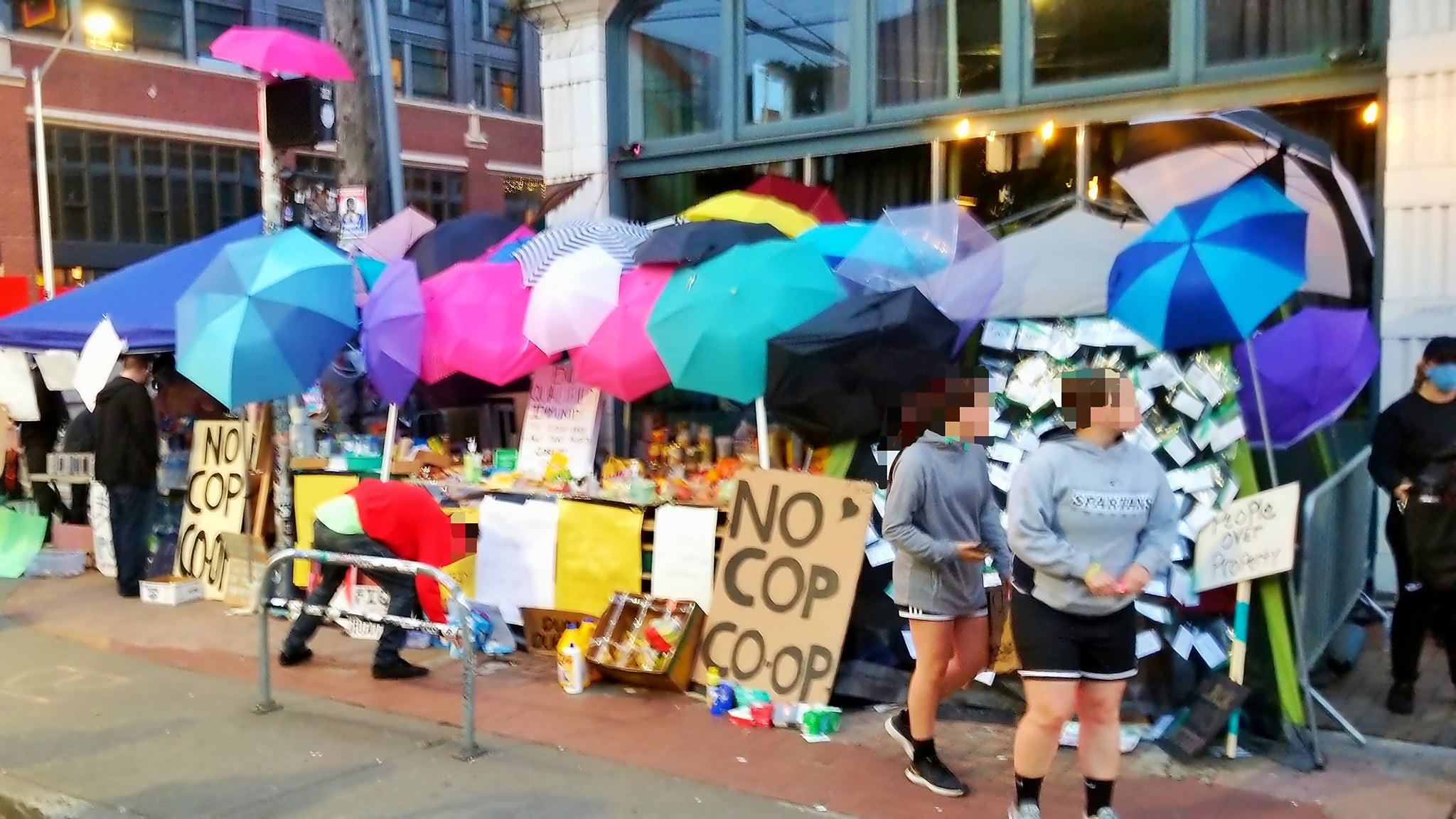 The umbrellas were used to defend against chemical attacks by the police in the days previous to the establishment of CHAZ.